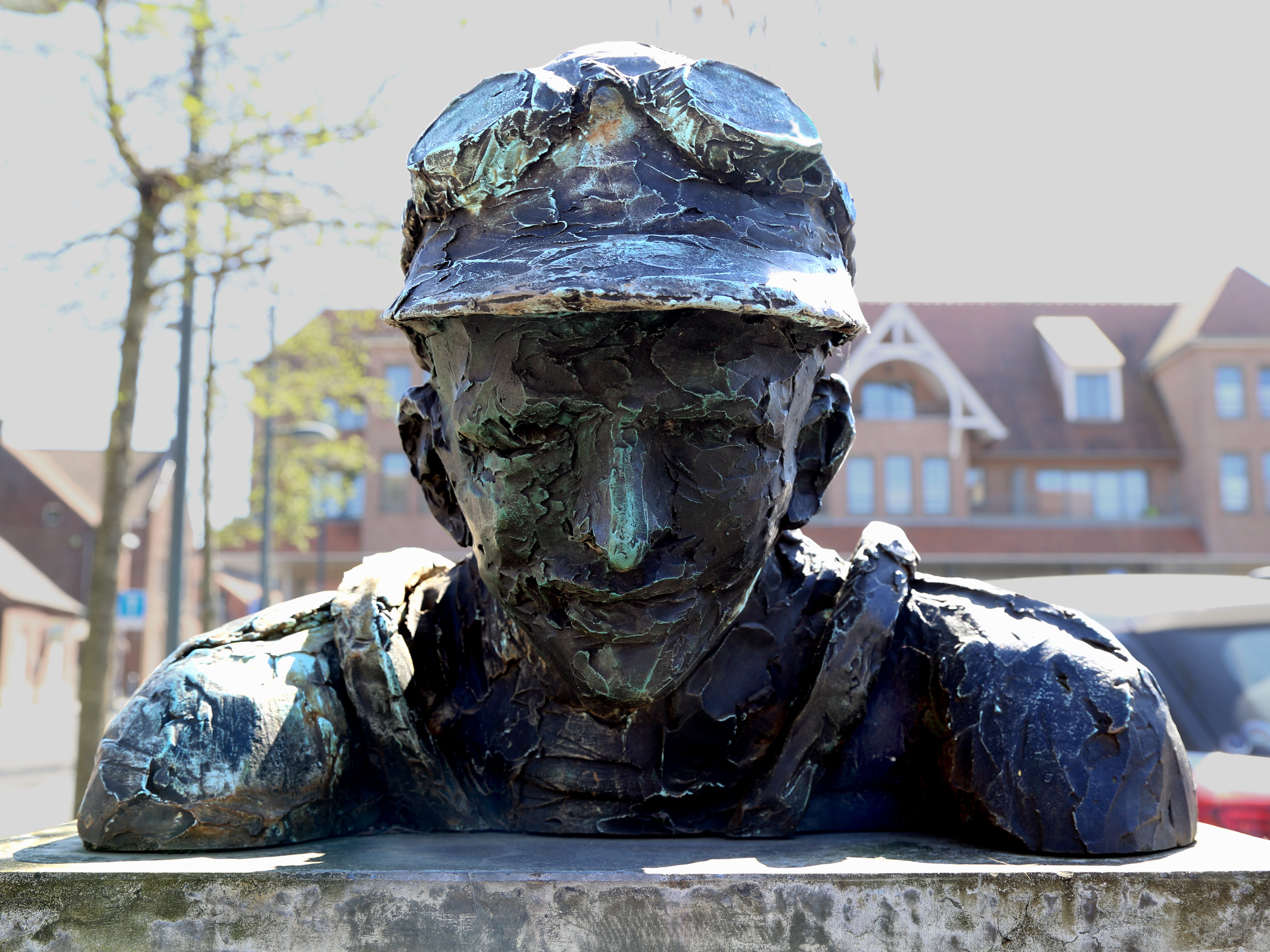 Bust of the racer cyclist Omer Huyse on Luingne Square, Belgium.